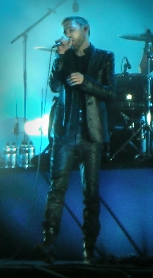 Joakim Berg, frontman of Swedish rock band Kent, performing in Eskilstuna, Sweden.